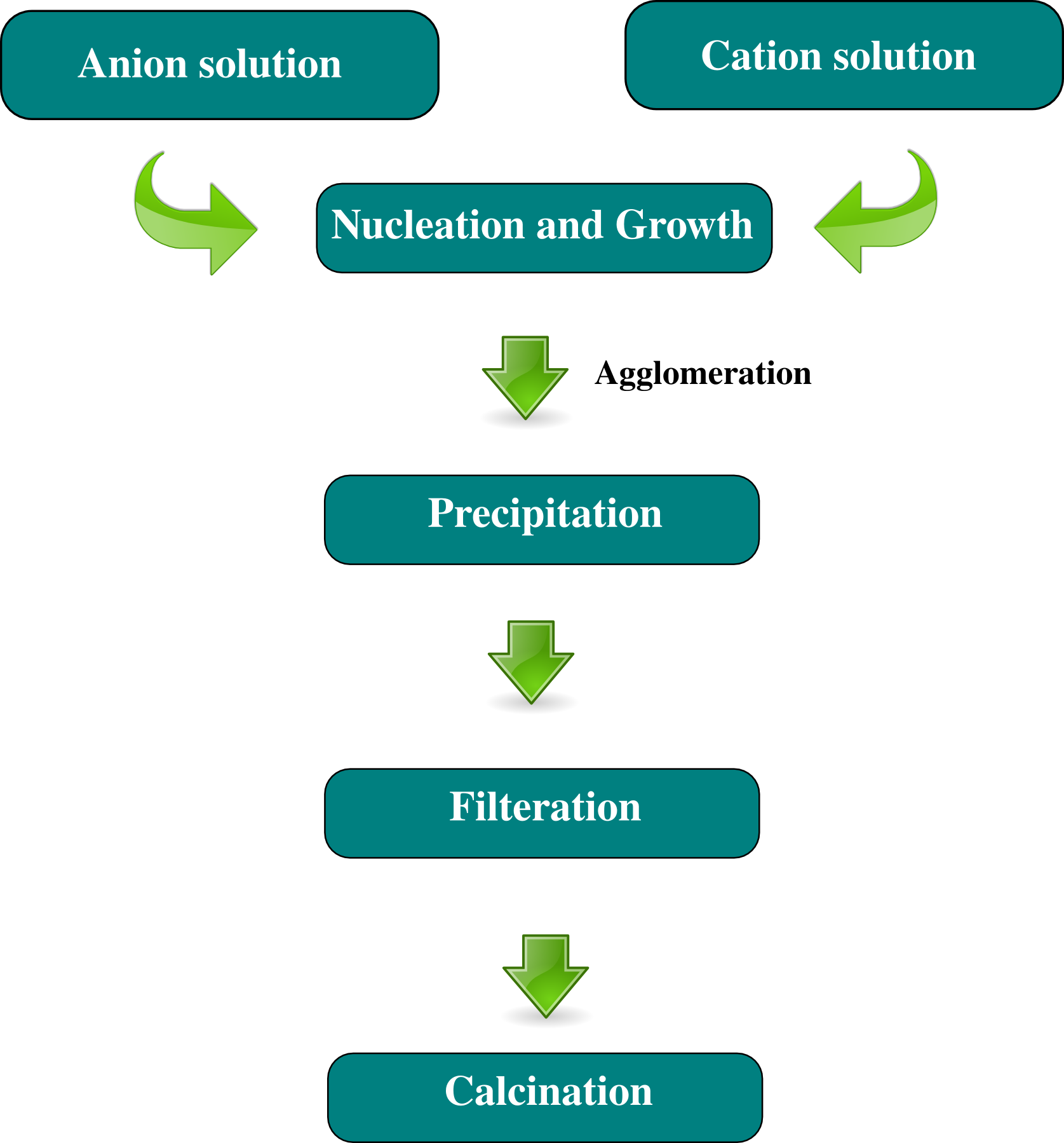 Flow diagram for Co-precipitation